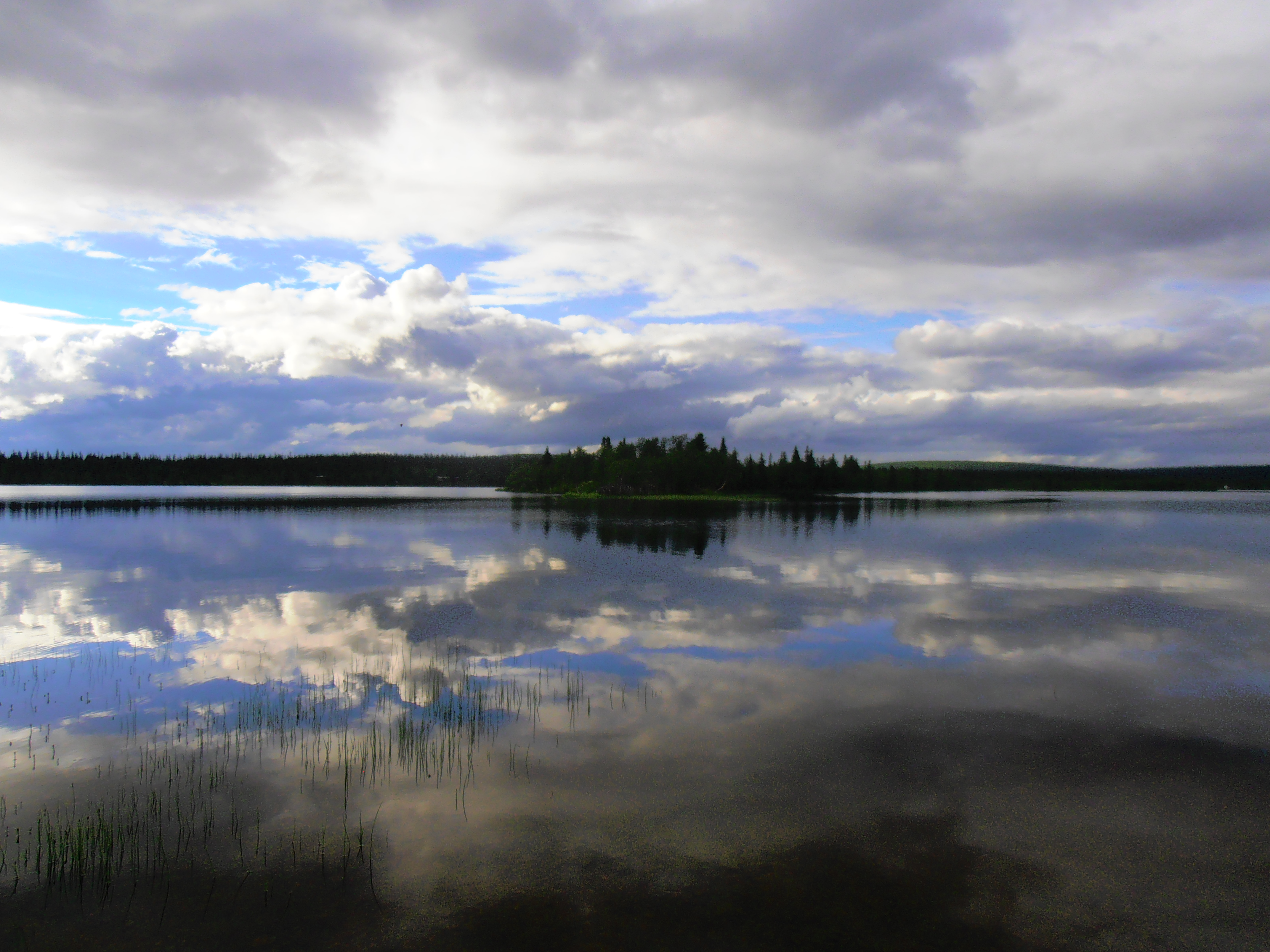 Tjautjasjaure lake, Tjautjas